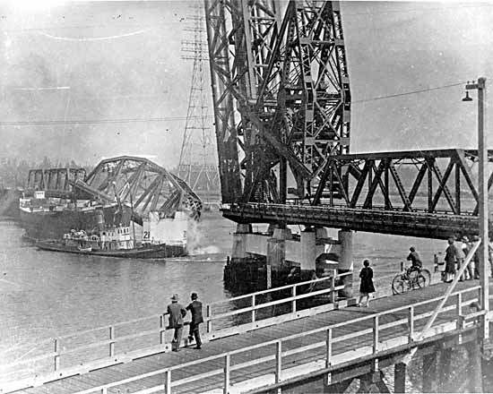 Second Narrows Bridge collapse, caused by collision of the hulk Pacific Gatherer being towed by the tug Lorne